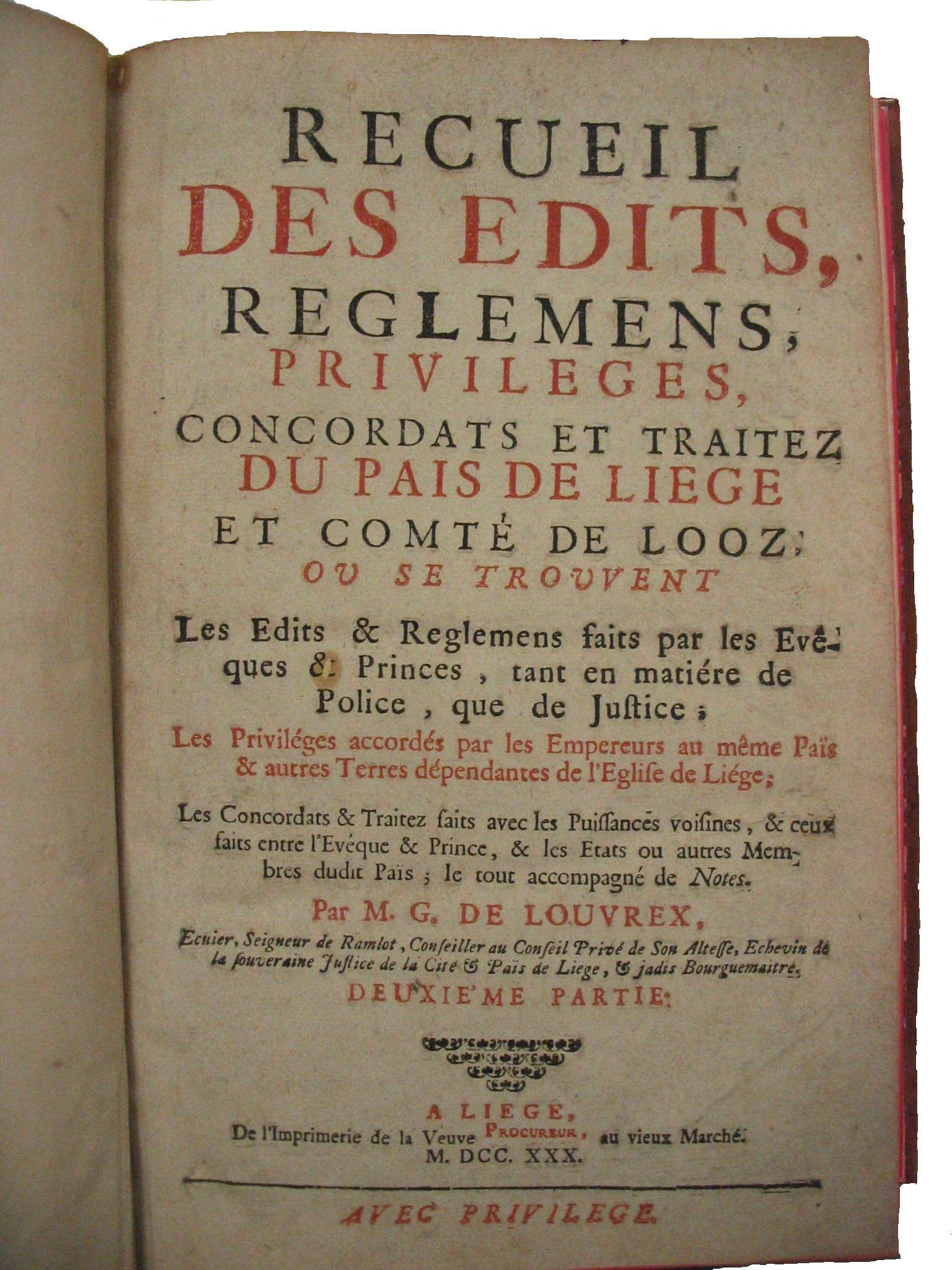 head page of "Recueil des édits, règlements, privilèges, concordats et traitez du païs de Liége et Comté de Loos..." by Mathias-Guillaume de Louvrex